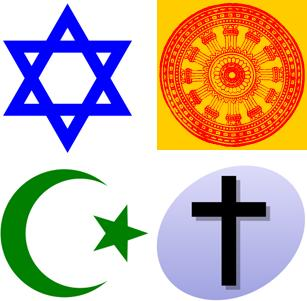 A combination of four religious symbols. From top left, clockwise: Star of David, Dharmacakra, Cross, and Star and Crescent